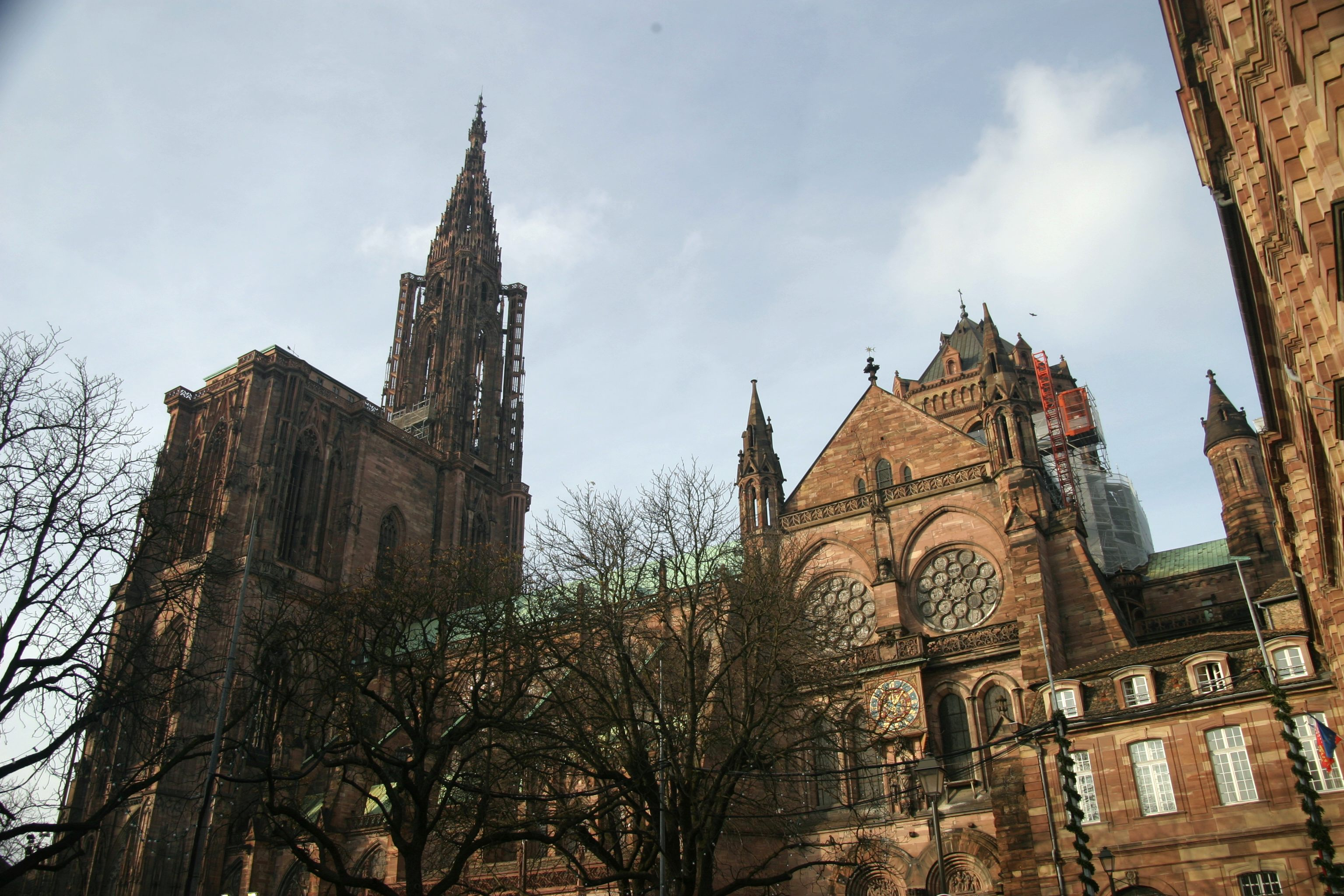 This image was taken at Strasbourg Cathedral, Strasbourg.